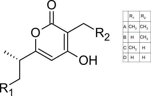 Chemical Structure of Germicidin A-D